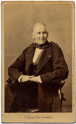 Photography - Portrait of Johan Michiel Dautzenberg